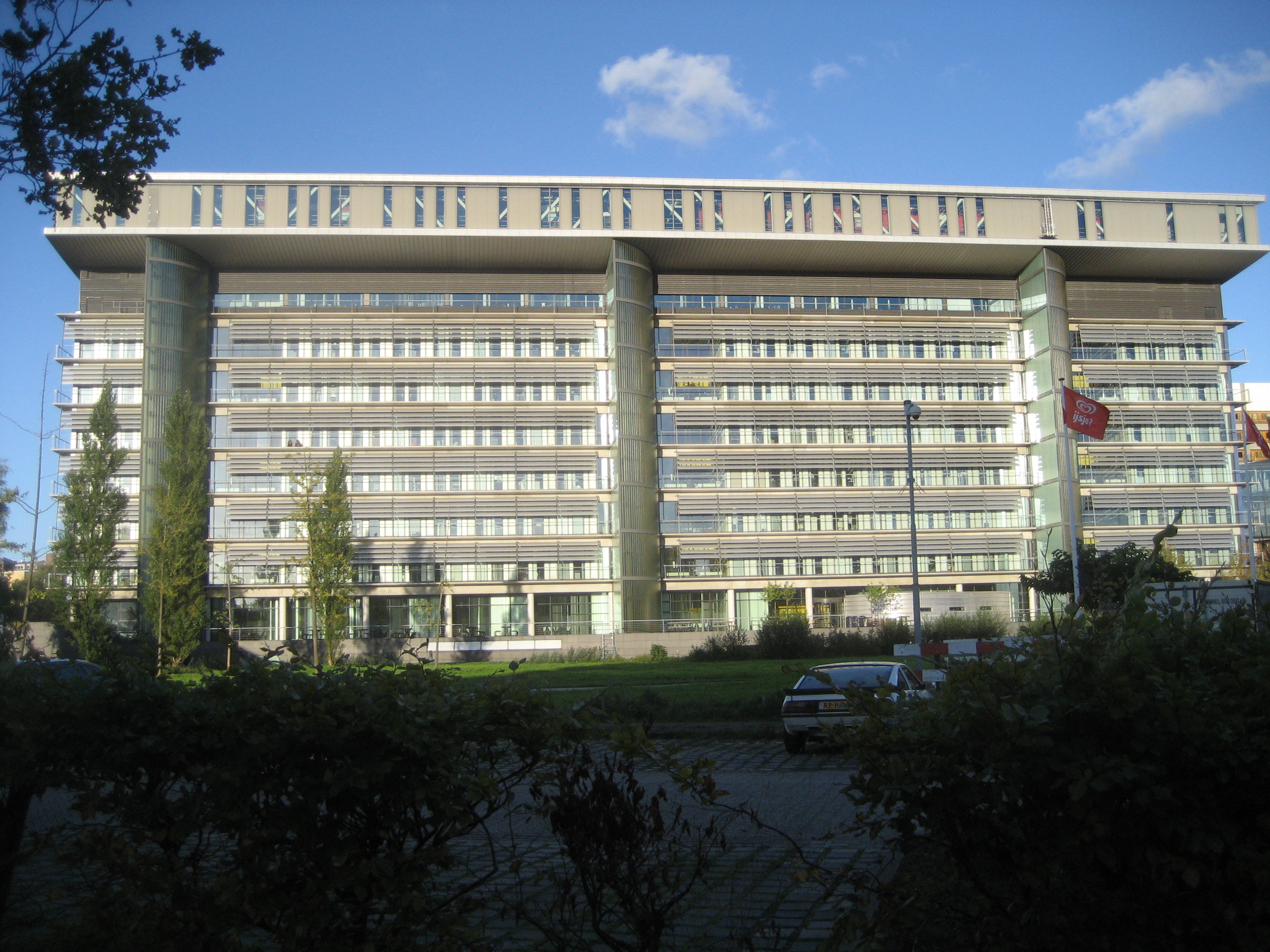 Leiden University Medical Centre (LUMC), Research Building, Einthovenweg 20, 2333 ZC Leiden (The Netherlands). Building 2. Built 2003-2005. EGM Architects